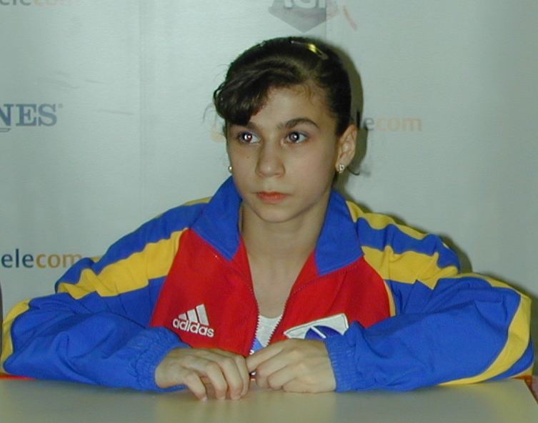 Romanian gymnast Silvia Stroescu at a press conference during the 2000 European Gymnastics Championships in Paris.